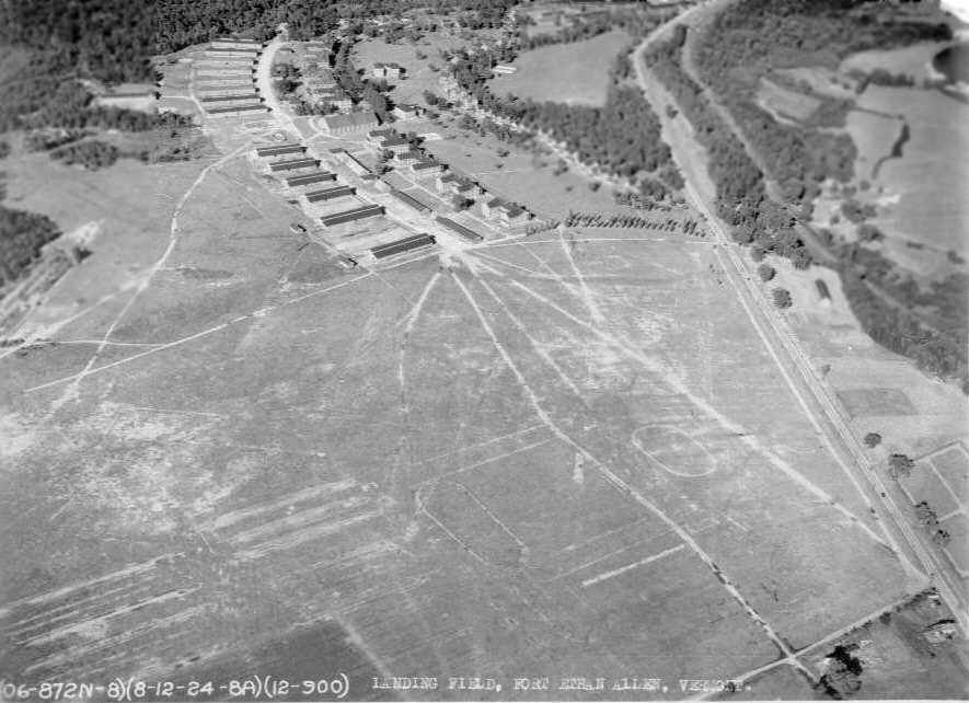 August 12, 1924 aerial view of Fort Ethan Allen Army Airfield, Vermont